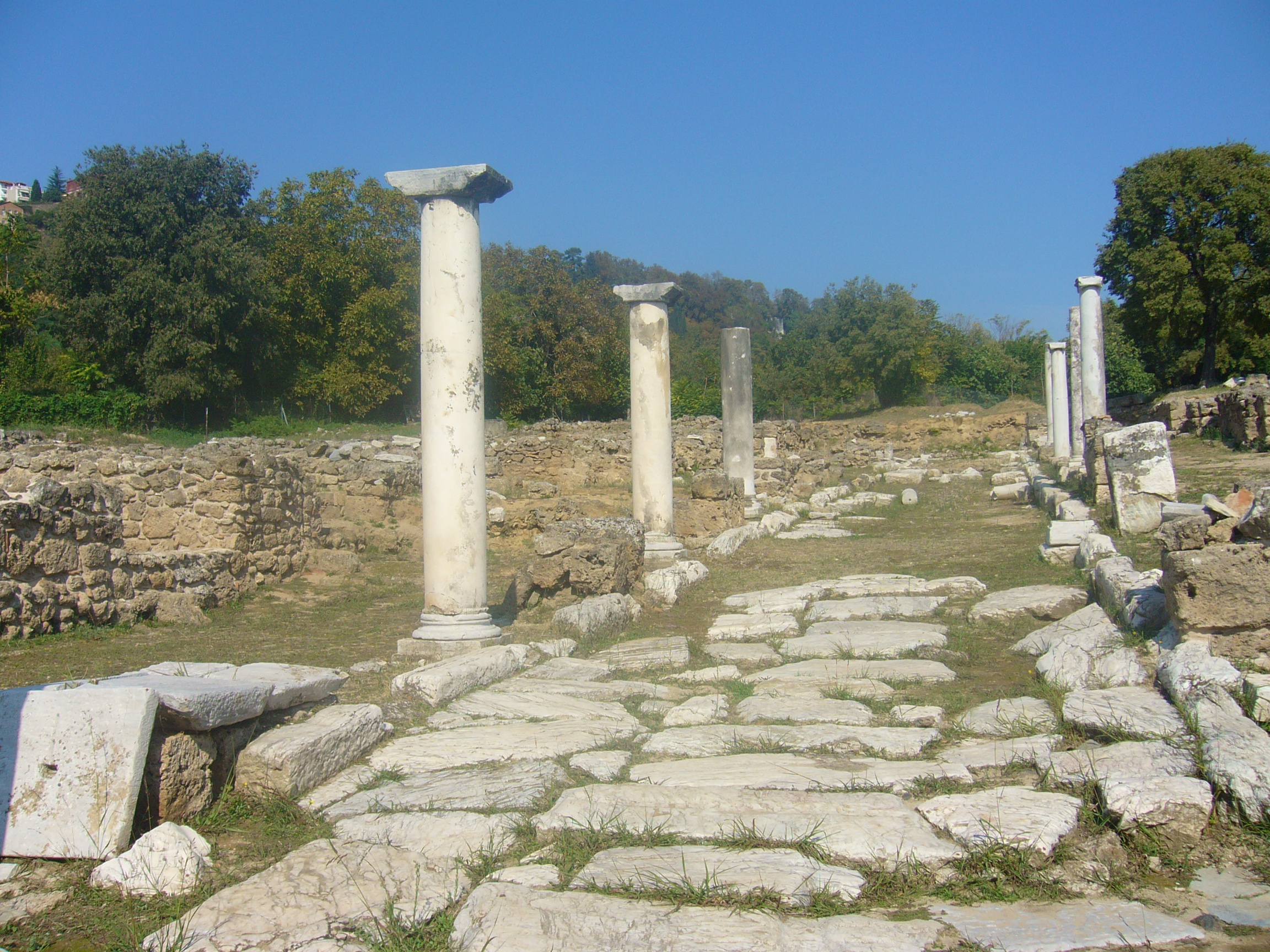 Ancient Greek ruins in Edessa, Pella prefecture, Greece.